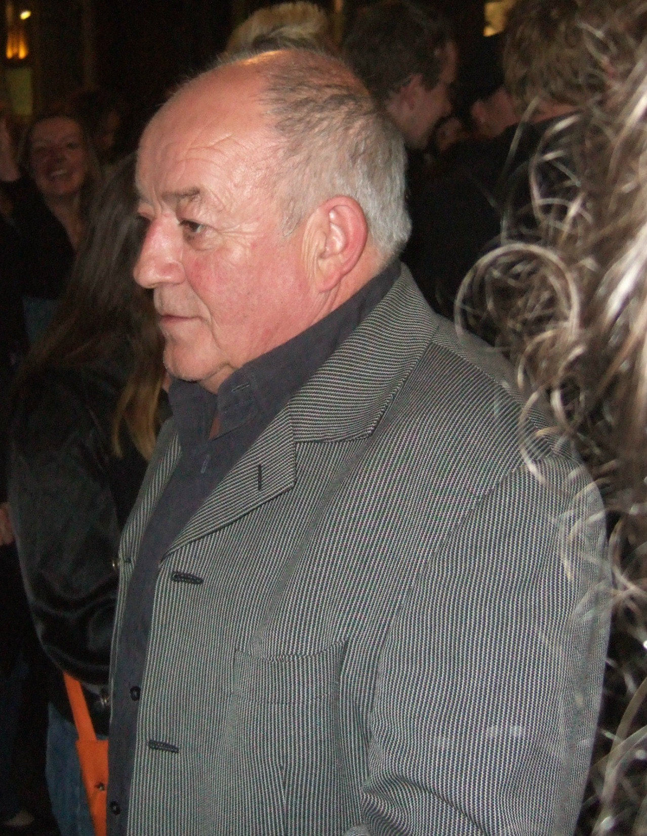 Tim Healy